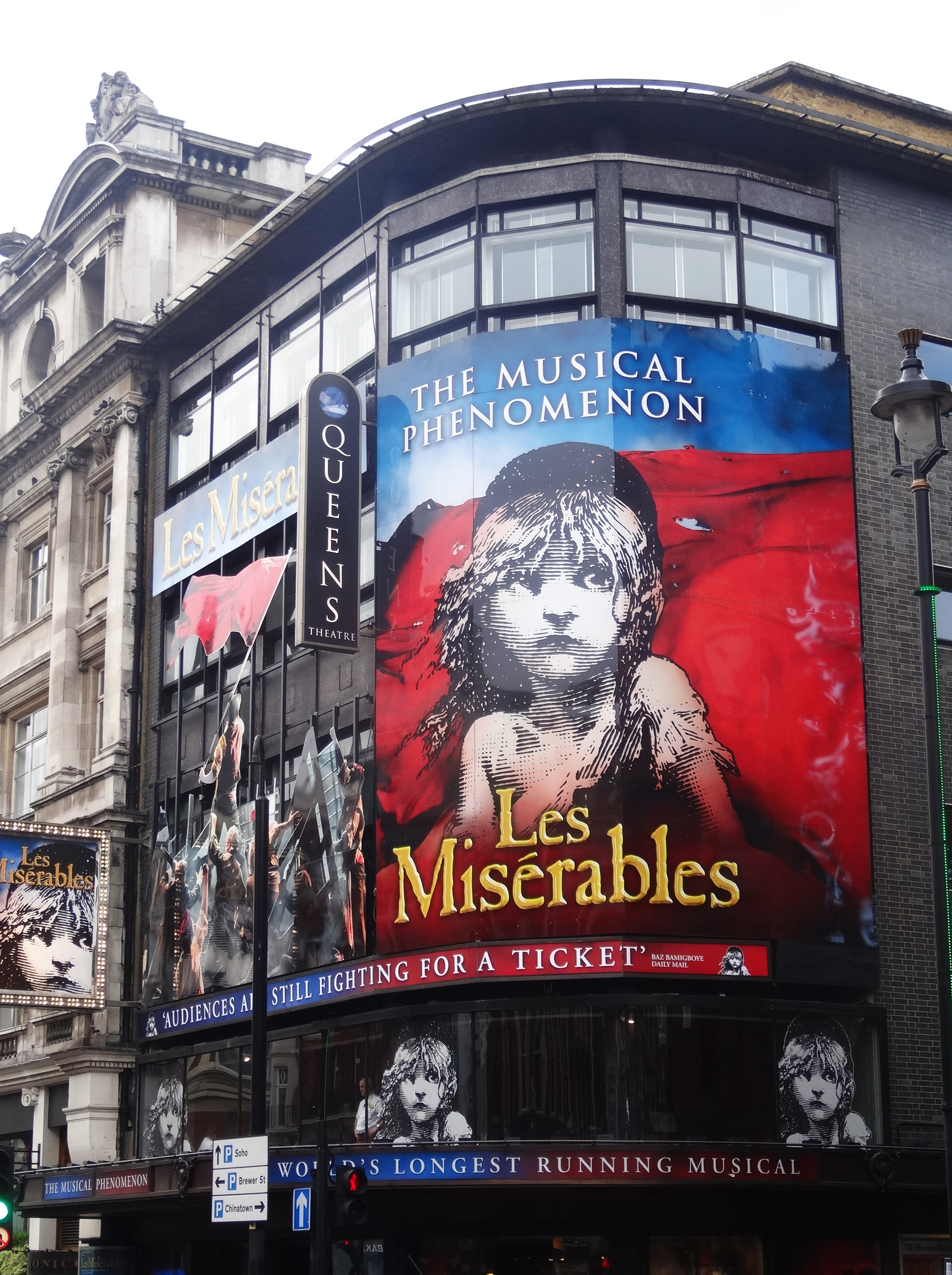 Les Misérables at Queen's Theatre in London